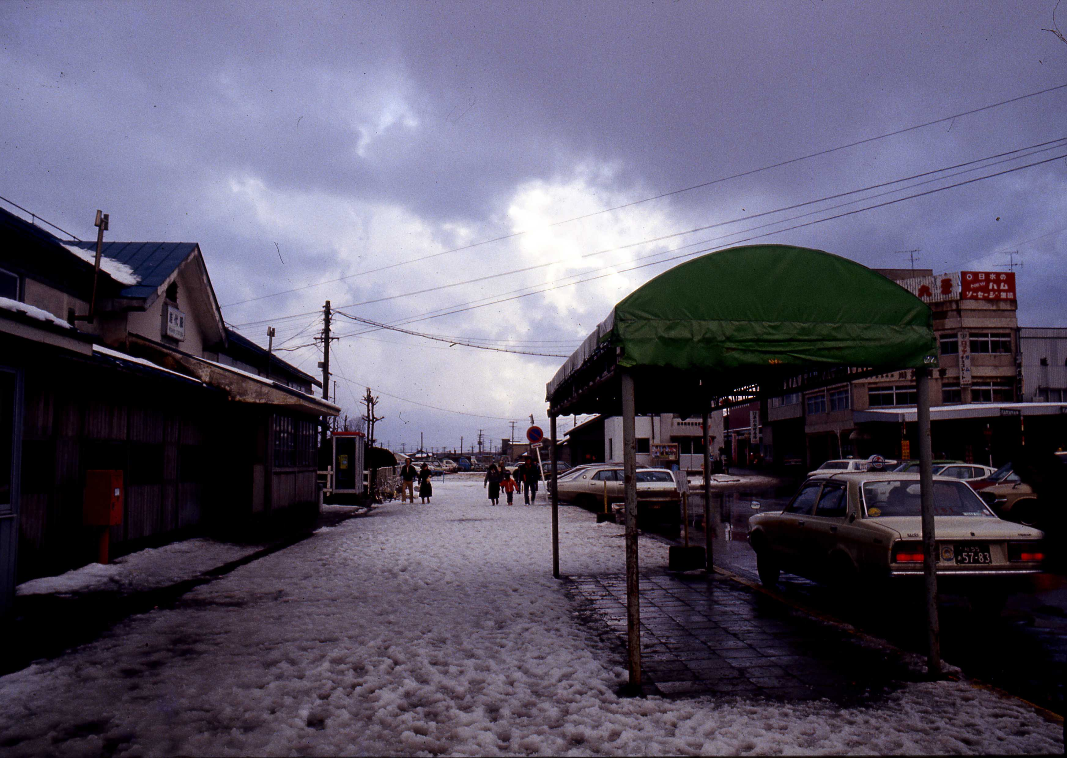 Noshiro Station on the Gono Line